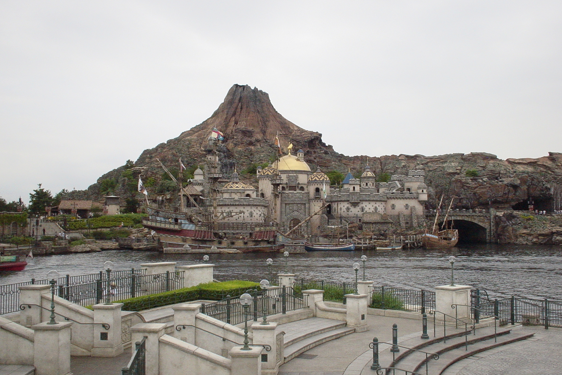 Tokyo Disney Sea Mountain